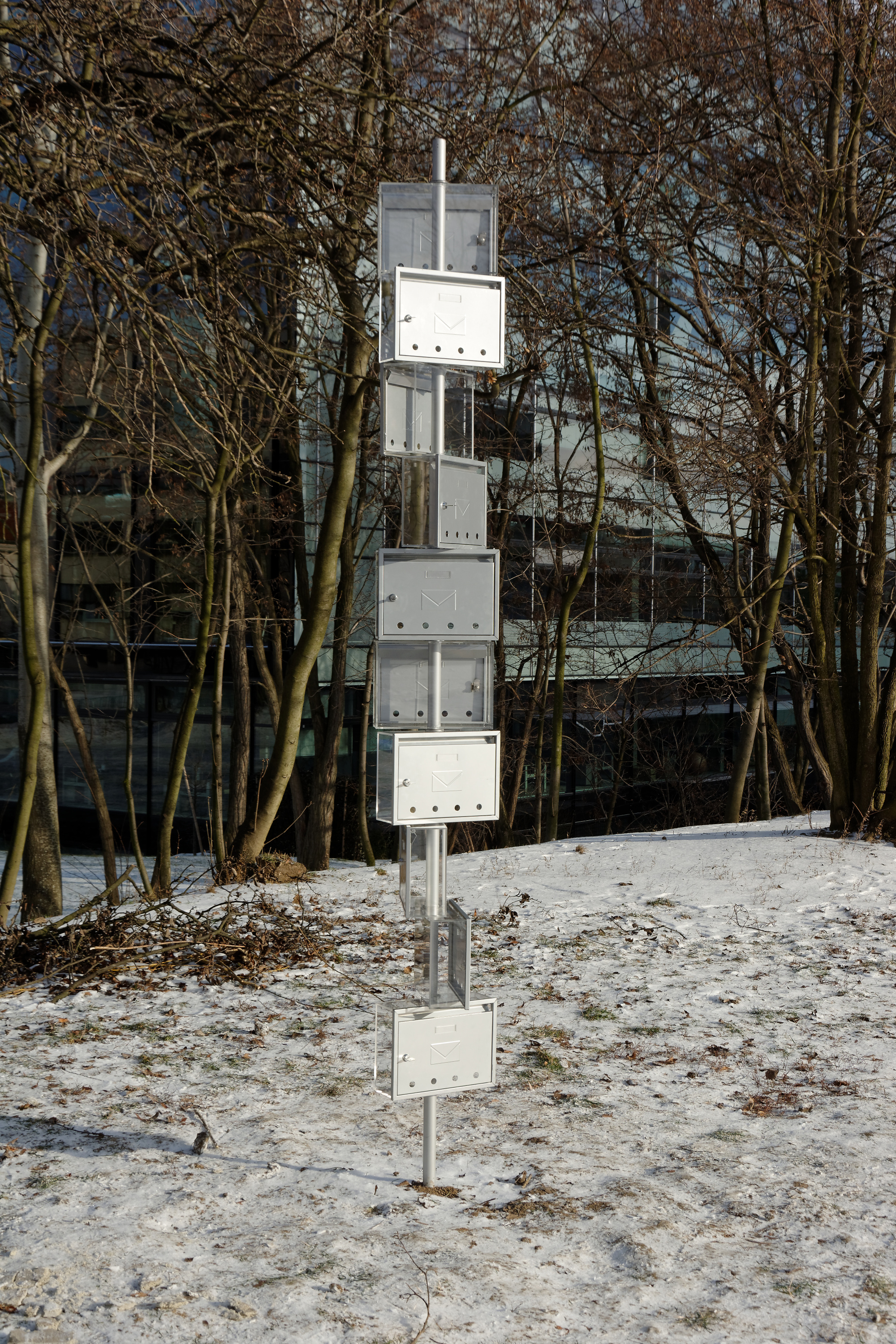 Martin Brůha: Charta 77 Memorial in Prague